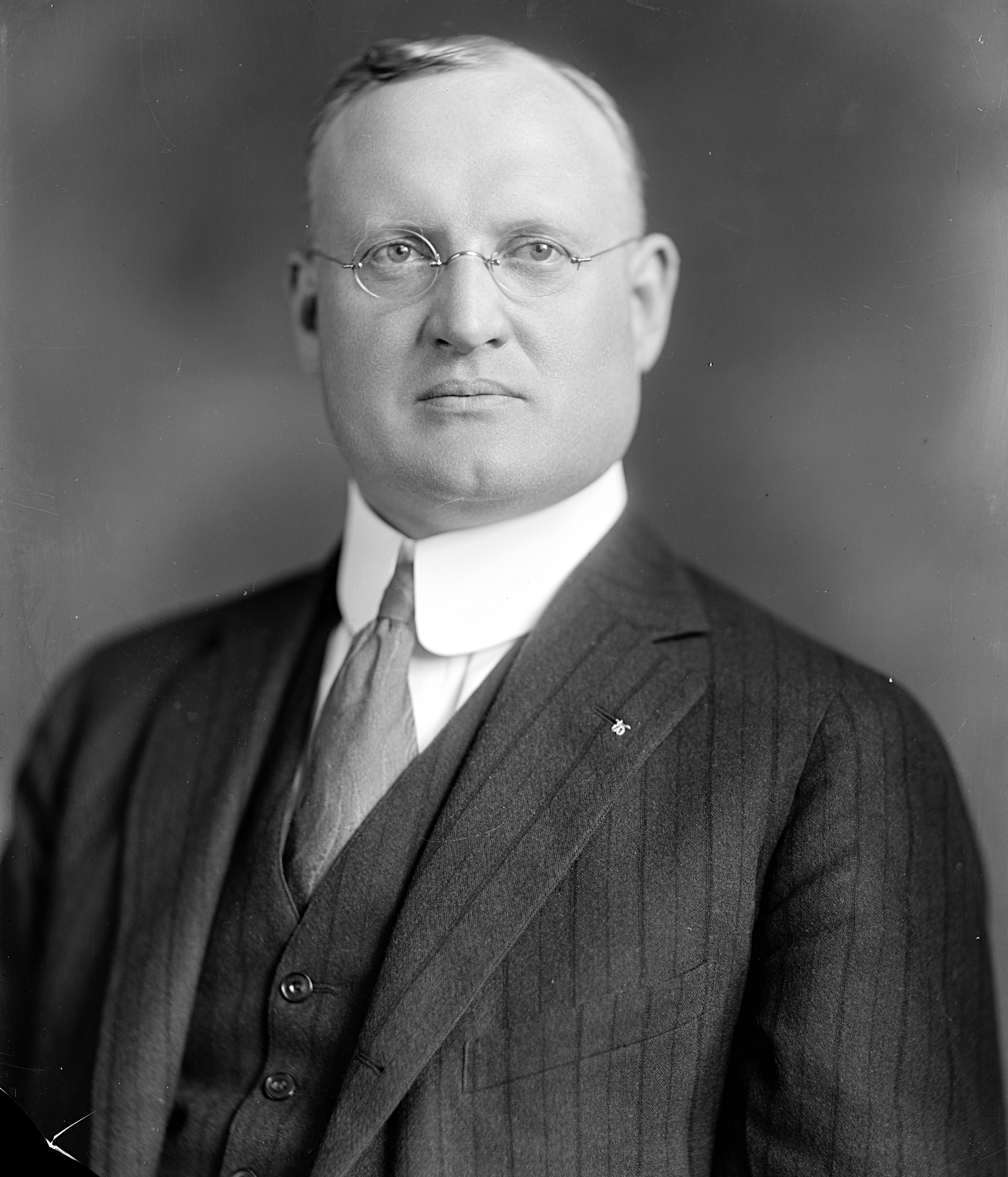 Daniel A. Reed, US Representative from New York